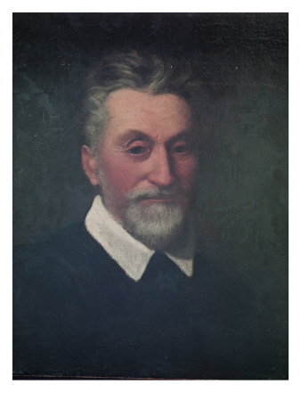 Self-portrait italian painter Dosso Dossi